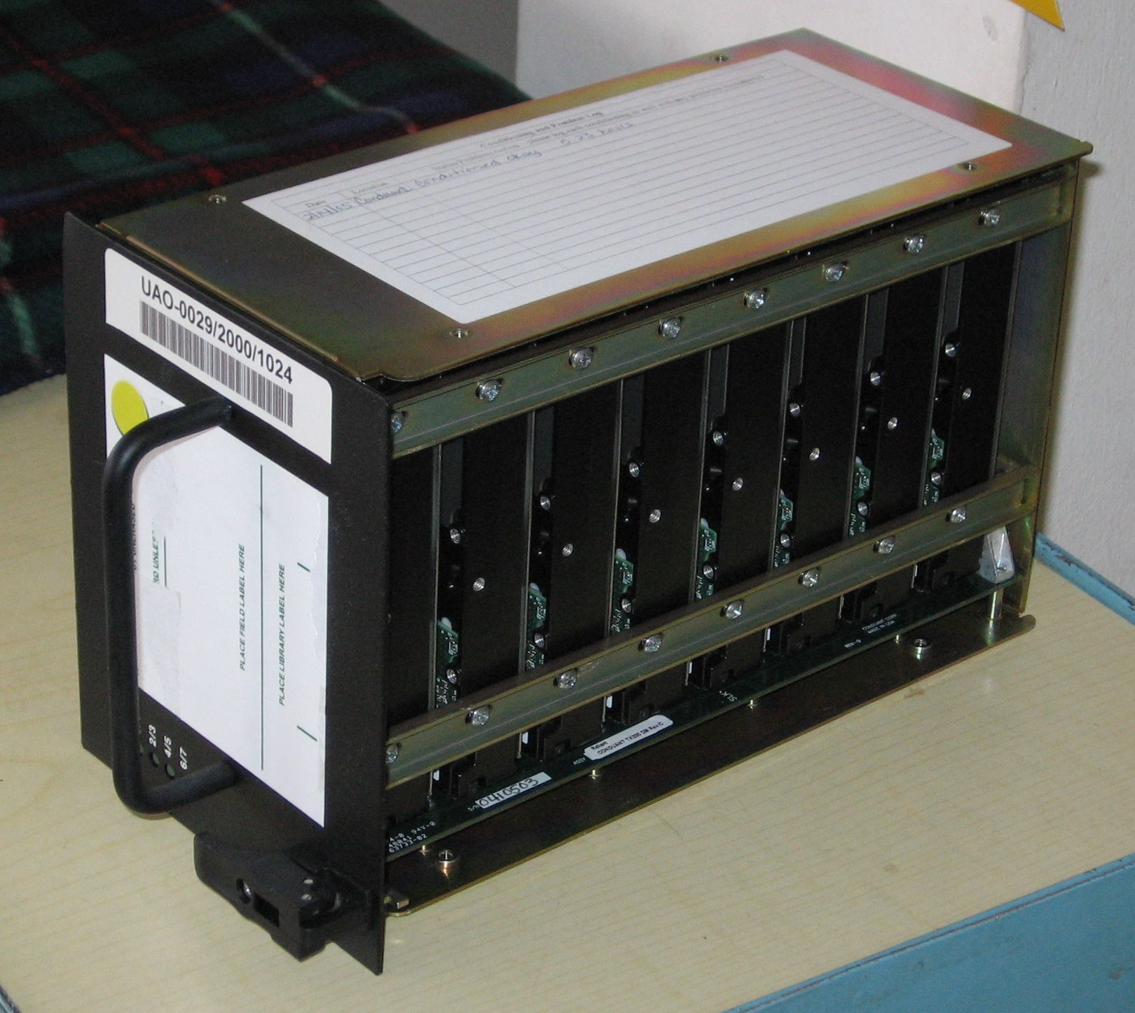 Hard disk package used in Mark5 VLBI terminal (8 x 200-400GB).